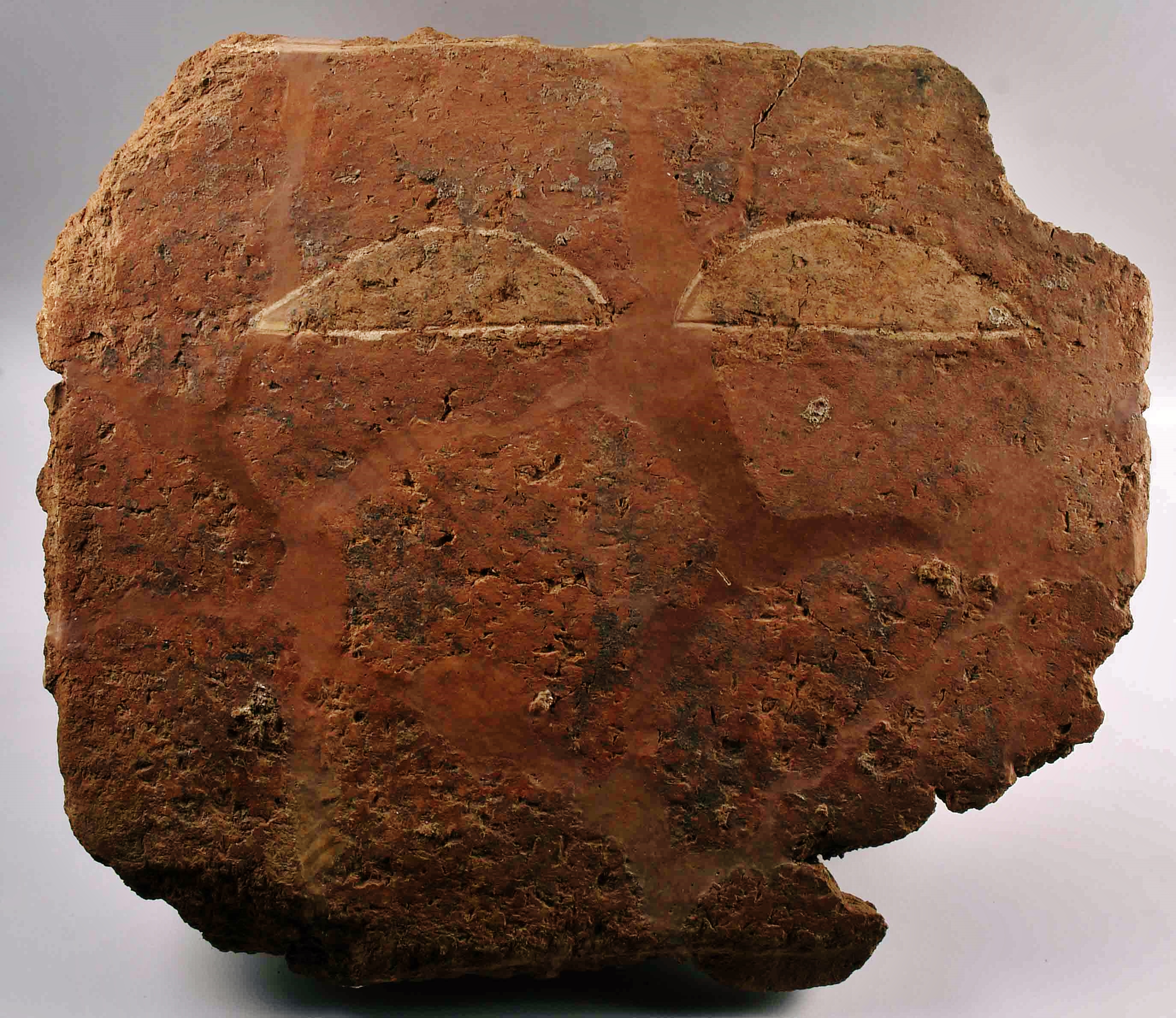 Fresco Sanctuary Complex Dolnoslav BG